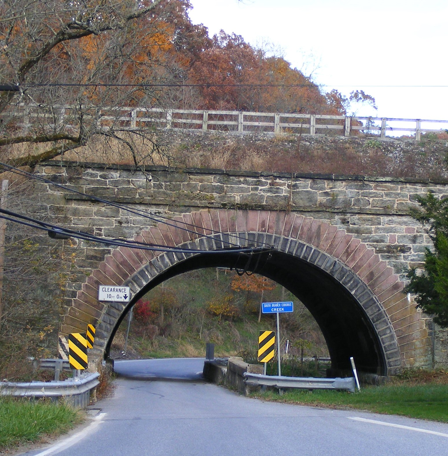 Bridge 634, Northern Central Railway, Shrewsbury Township, near Glen Rock, Pennsylvania. Listed on National Register of Historic Places in York County, PA